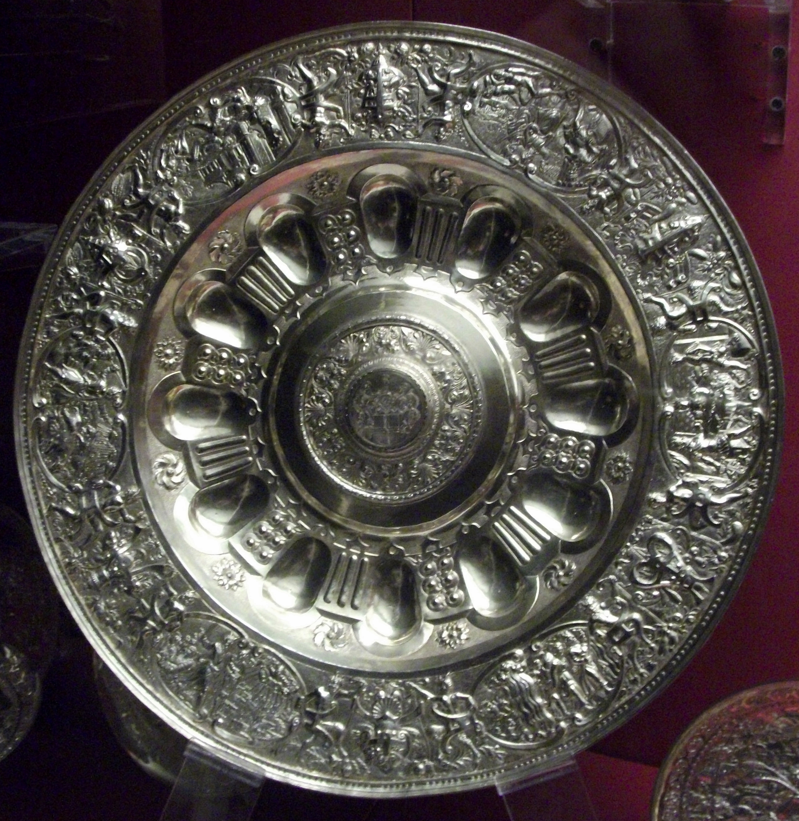 Silver plate, Waddesdon bequest, British Museum